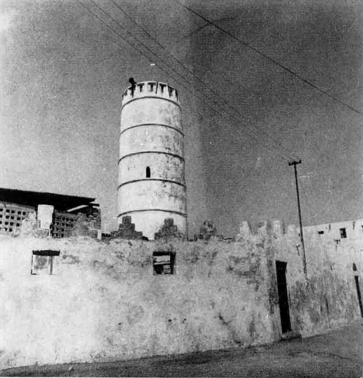 Jama'a Xamar Weyne La_Lomia, M., 1982. Antiche Moschee Di Mogadiscio. Palermo: ILA Palma.